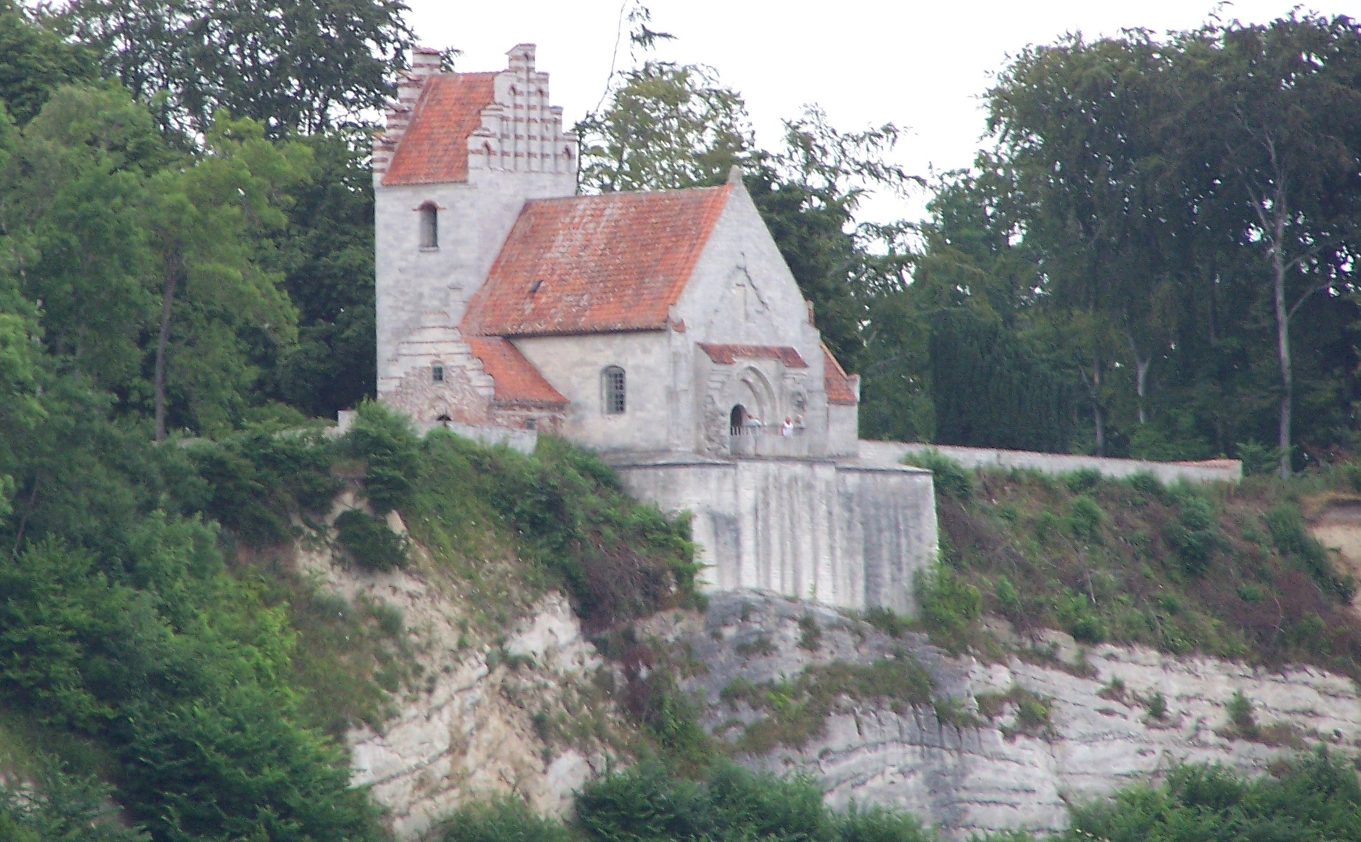 Højerup church, Stevns, Denmark